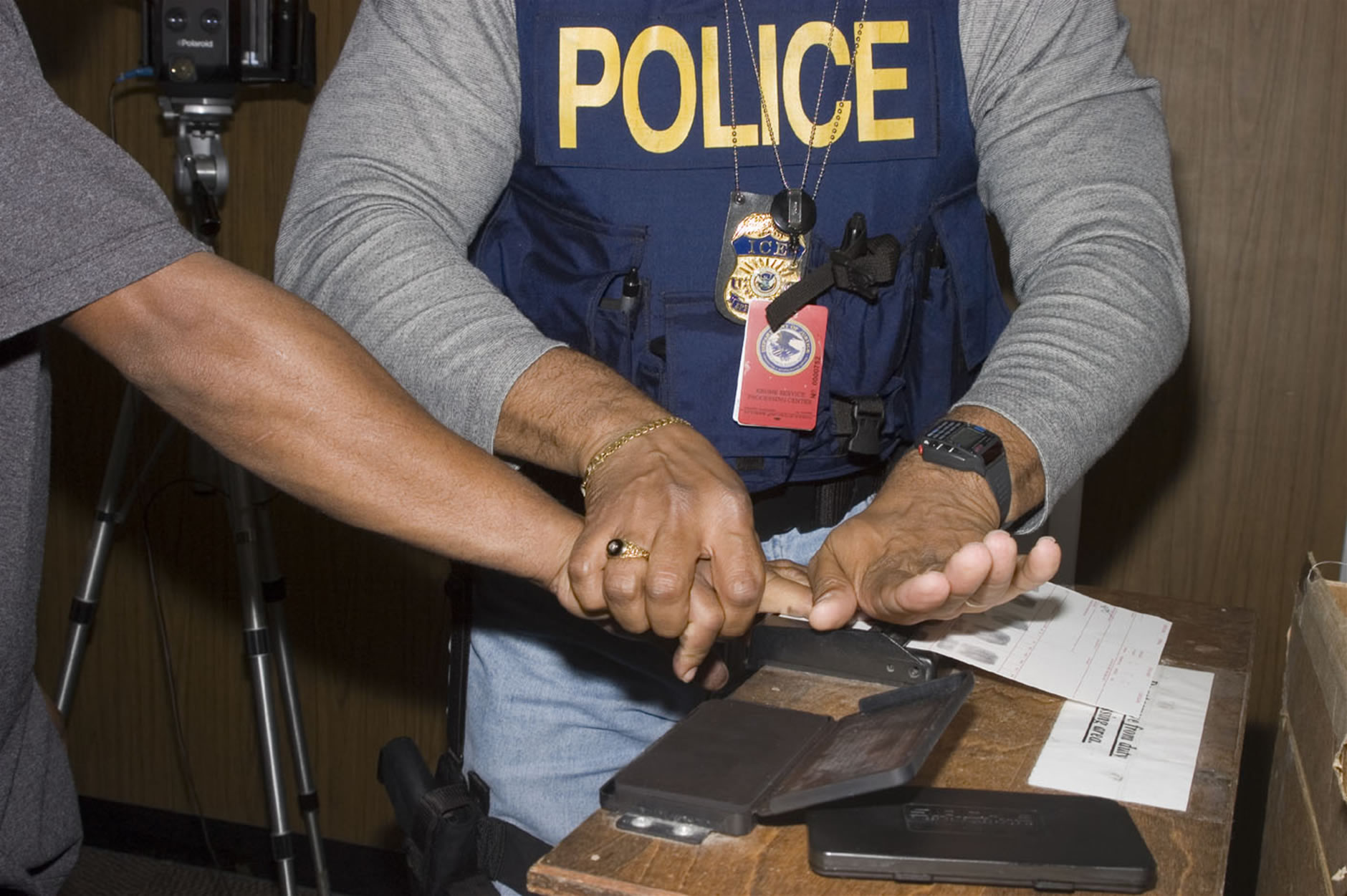 Police officer (U.S.) taking fingerprints